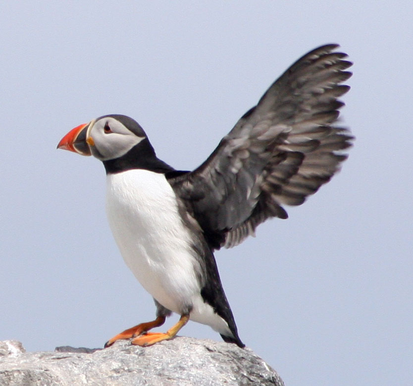 Puffin with spread wings (photo taken n. Farne Islands, England)